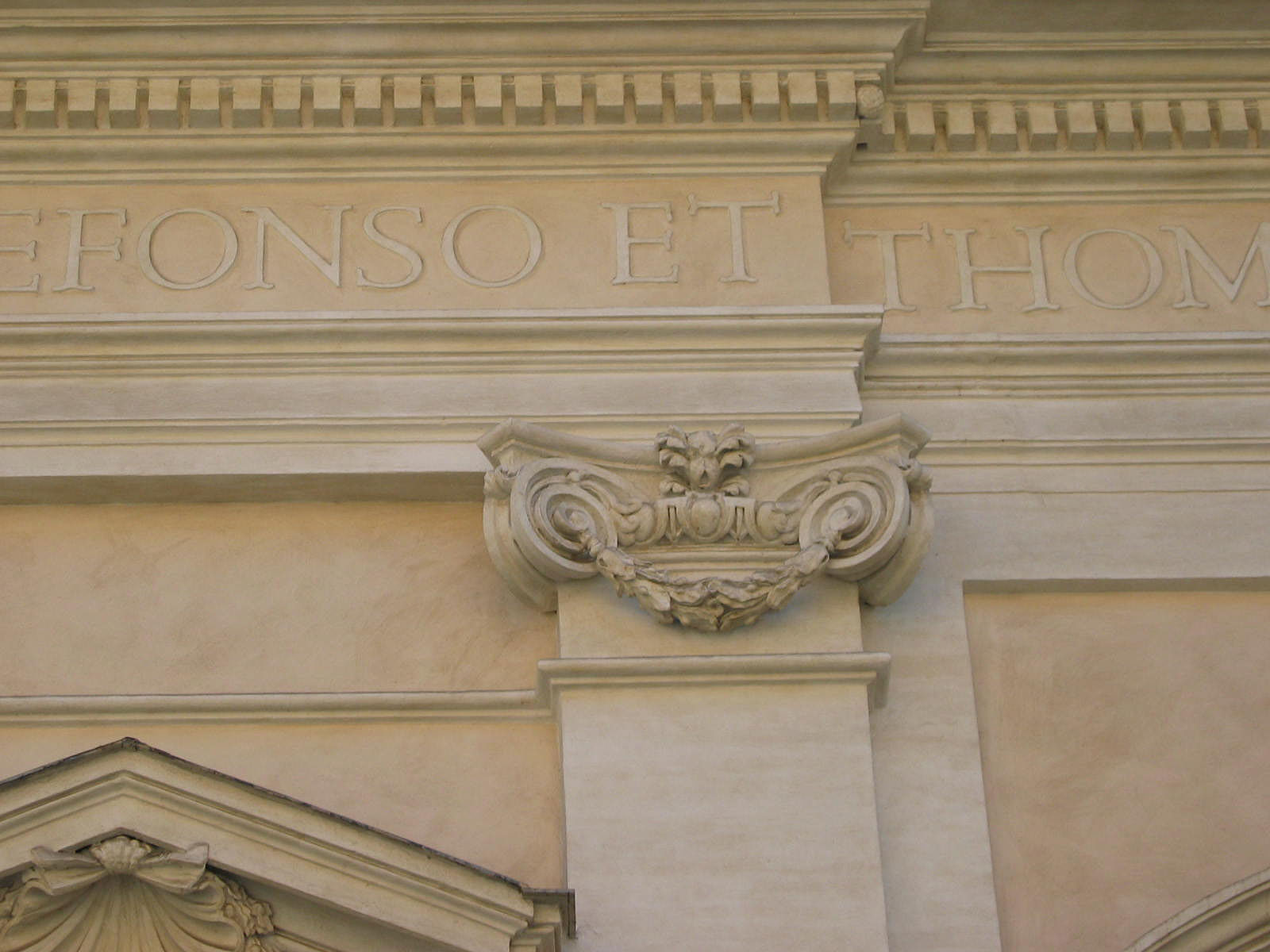 Detail of façade of Santi Ildefonso e Tommaso da Villanova, Roma. Picture by User:Torvindus.